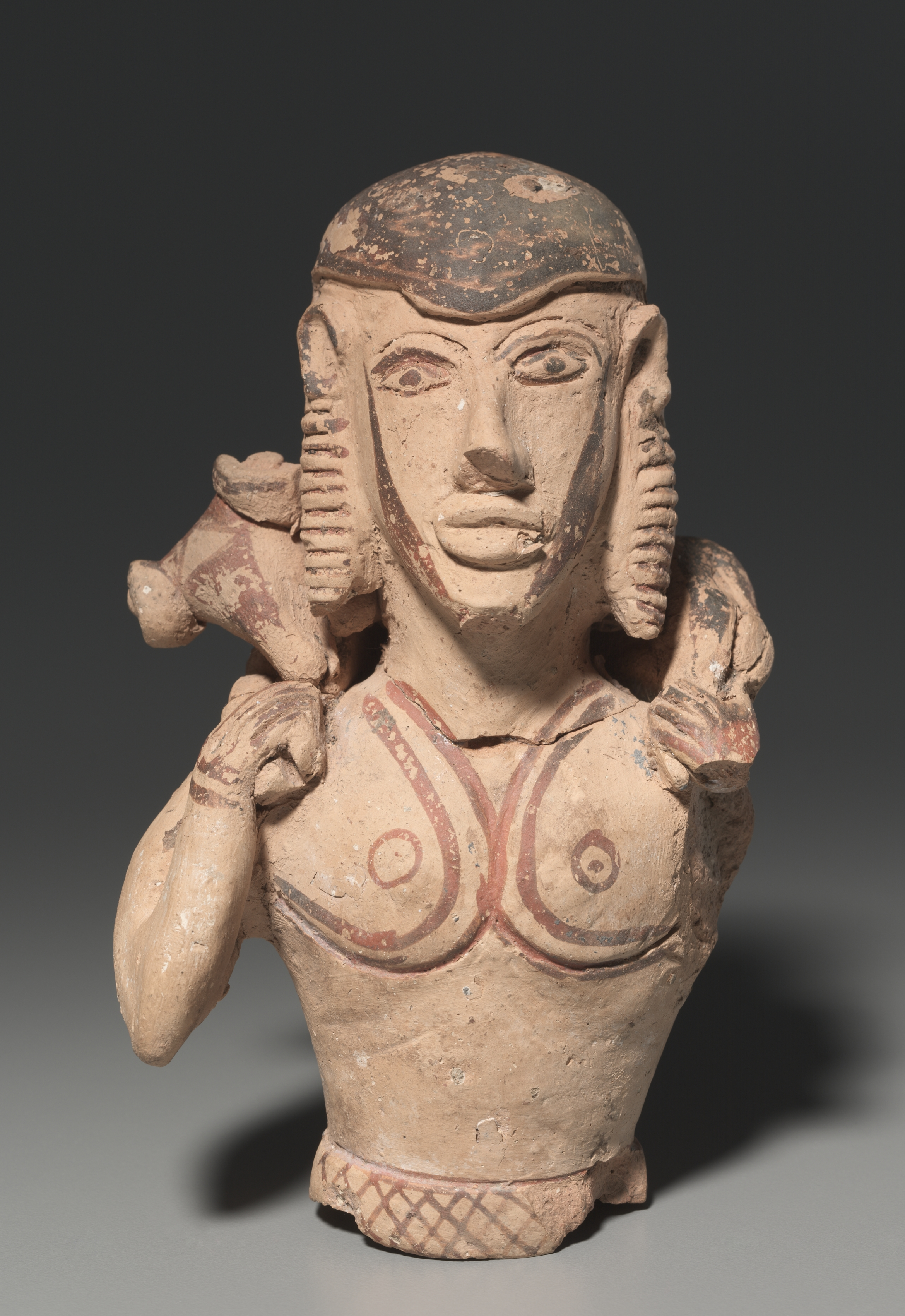 In Greek art, the kriophoros is usually a shepherd or, later, Hermes. This statuette may be unique in presenting a warrior-hero as kriophoros. It is certainly one of the earliest sculptural representations of this type. The figure appears to be wearing a helmet, secured under the chin with a painted strap. Double outlines, reinforced at the bottom with incision and adorned with dotted circles in the area of the nipples, were used to suggest breastplates. A thick waist belt, decorated with painted crosshatched lines, is clearly the heroic zoster (warrior's belt). As described in ancient Homeric poetry, the zoster is the ultimate symbol of valor and prowess, worn by such heroes as the brothers Agamemnon and Menelaos and old King Nestor. This figure is shown in the solemn act of presenting a ram, most likely as a sacrificial offering, to a god or goddess.